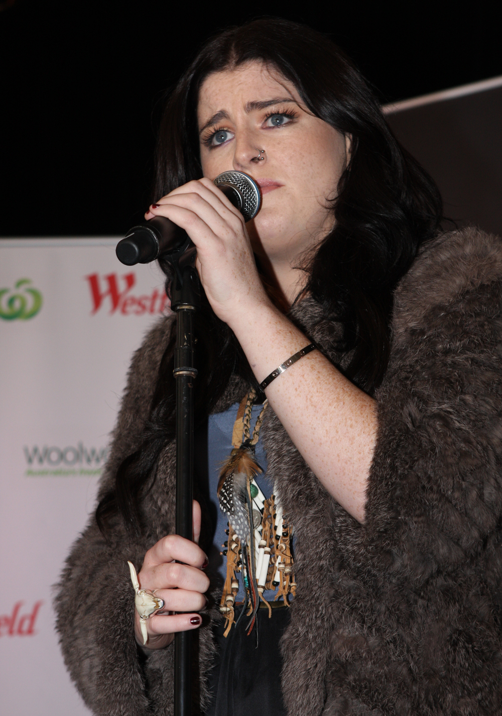 Karise Eden Performs at Wesfield Sydney in June 2012.